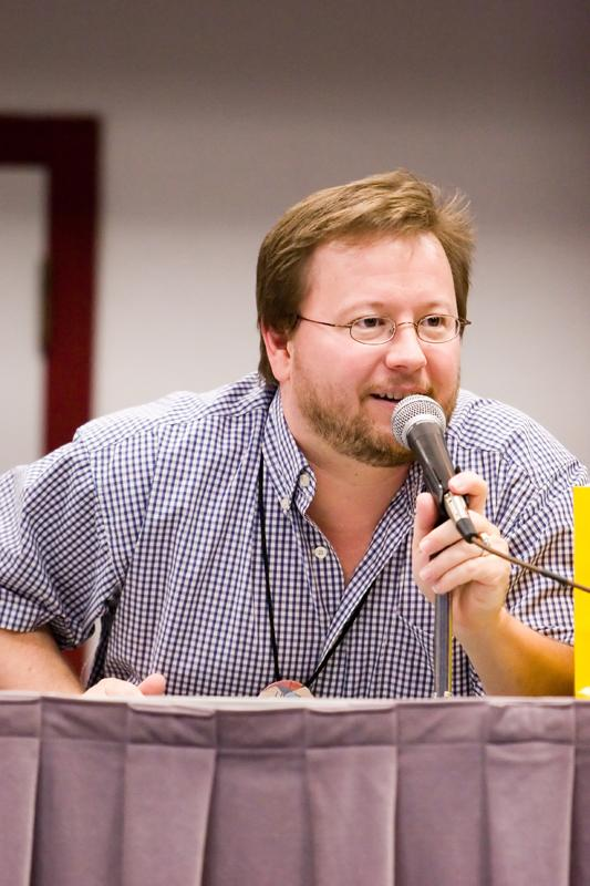 Photo of Sonny Strait during a panel at Anime Vegas '06. I hope these reasons are acceptable according to Wikipedia's terms: Mr. Strait has released this image and such similar images to the public domain. I operate Mr. Strait's website ( and have been associated with him for four years. This image is intended to represent a well-known voice actor, and to provide the reader with a visual reference of the articles subject.